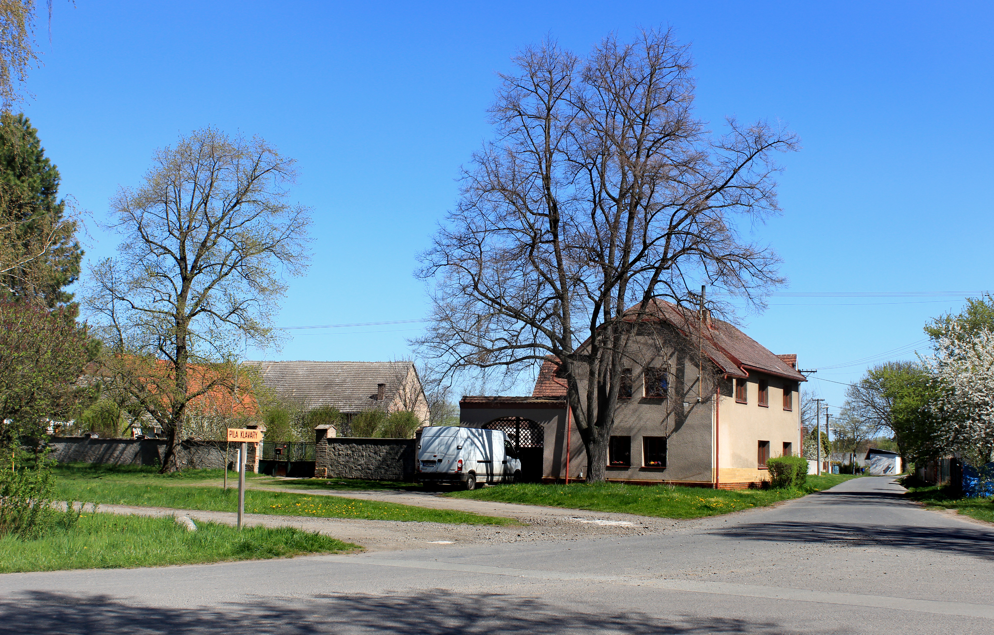 Common in Ohrada, part of Nová Ves I, Czech Republic.